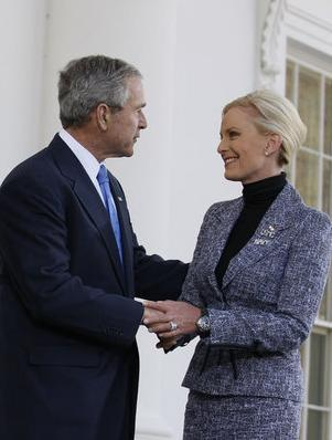 Cindy McCain with President George W. Bush at the White House, Wednesday, March 5, 2008.